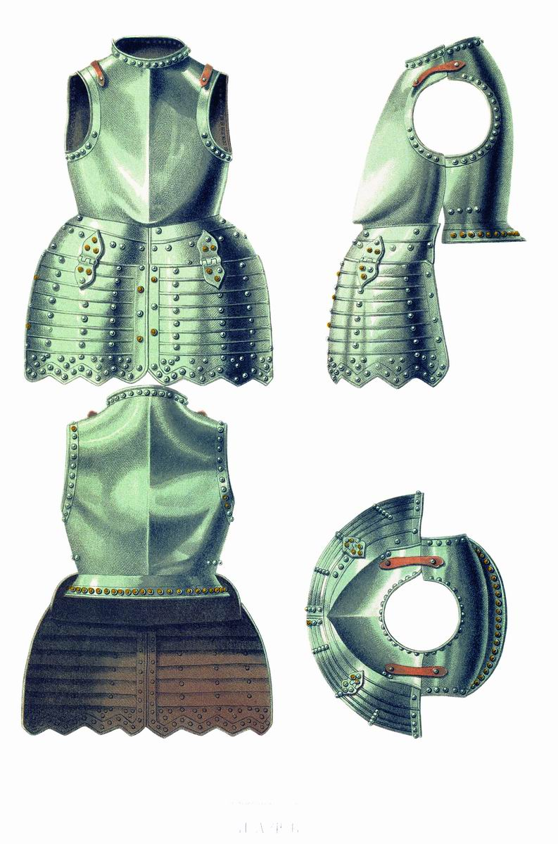 Armour (probably Lithuania)